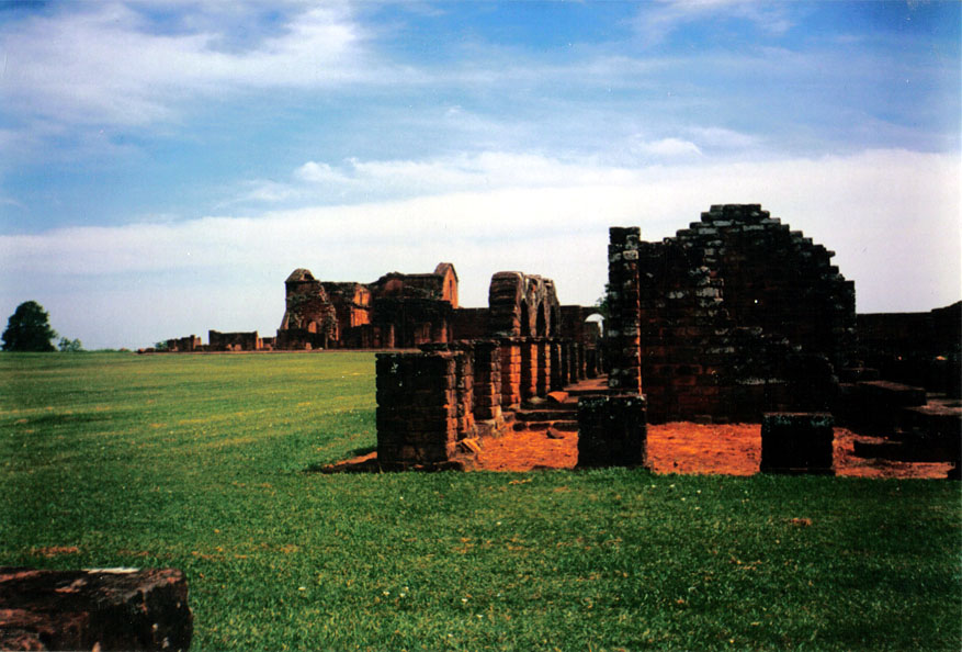 Courtyard of the Jesuit ruins at Trinidad, Paraguay, showing the Indian housing units as well as the main church to the left.